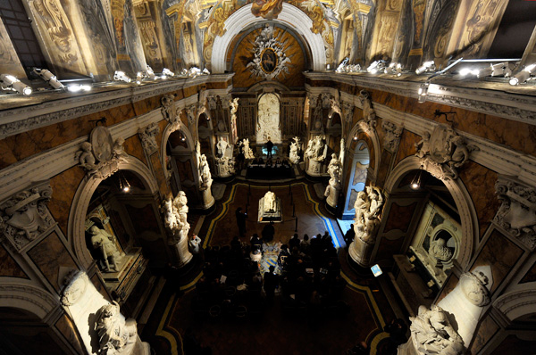 Immagine d'insieme, Cappella Sansevero